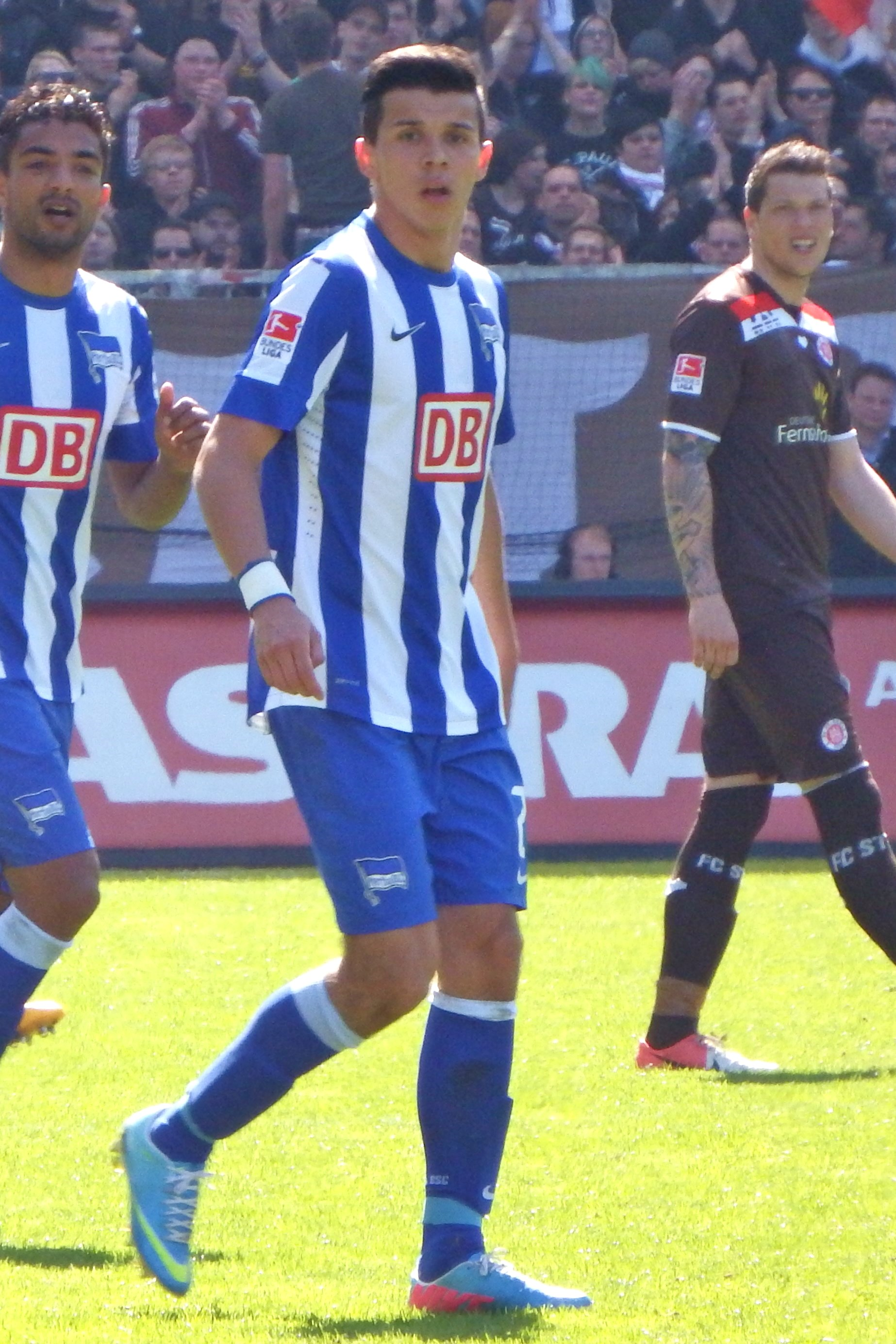 Alfredo Morales as Player of Hertha BSC Berlin